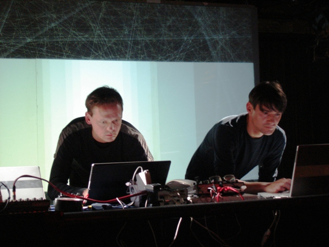 carsten and olaf are the owners of raster-noton.